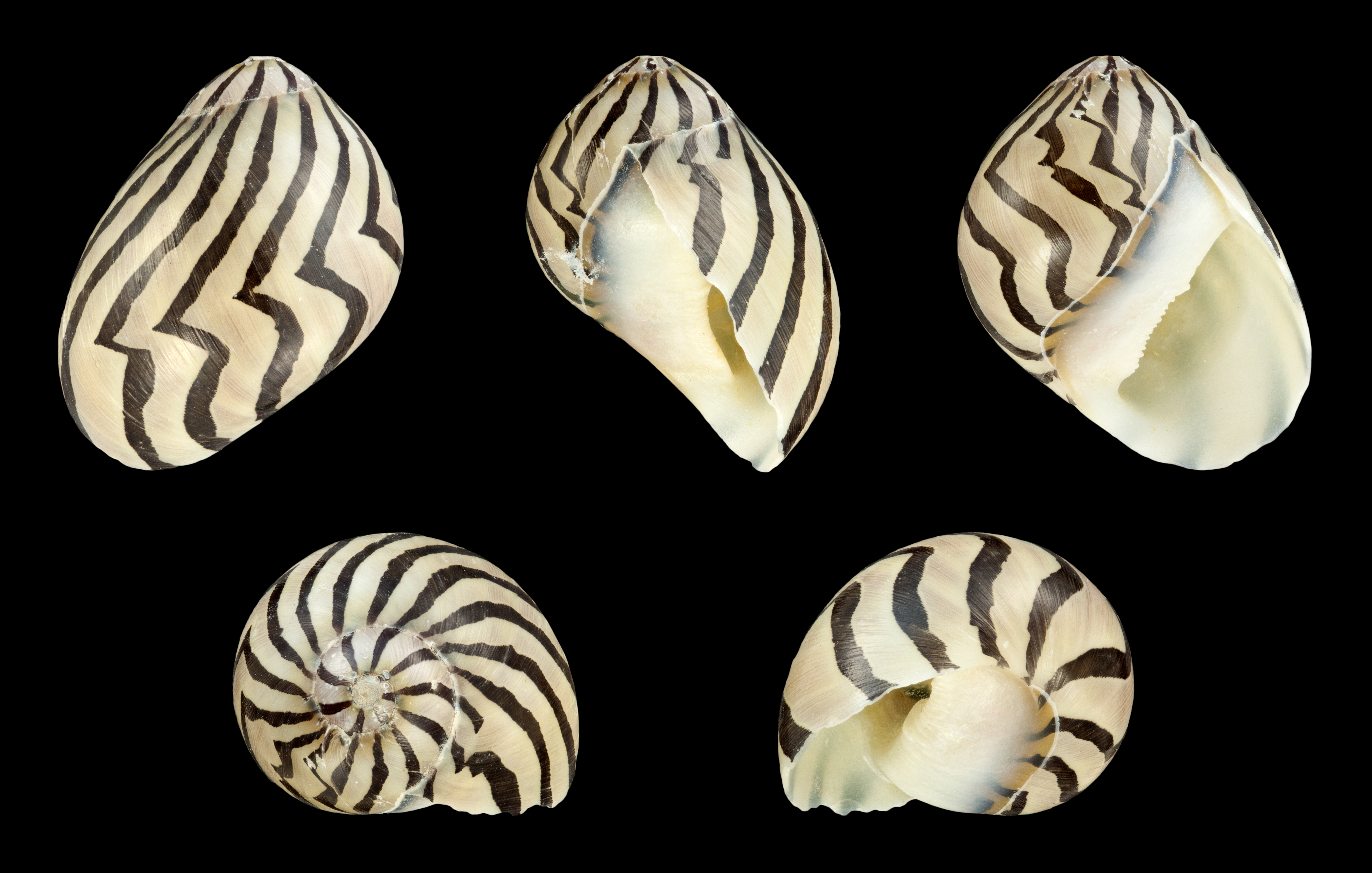 Vittina coromandeliana (Sowerby, 1838), Coromandel Nerite, form with zigzag bands; Height 1.9 cm; Originating from the Philippines. Shell of own collection, therefore not geocoded.